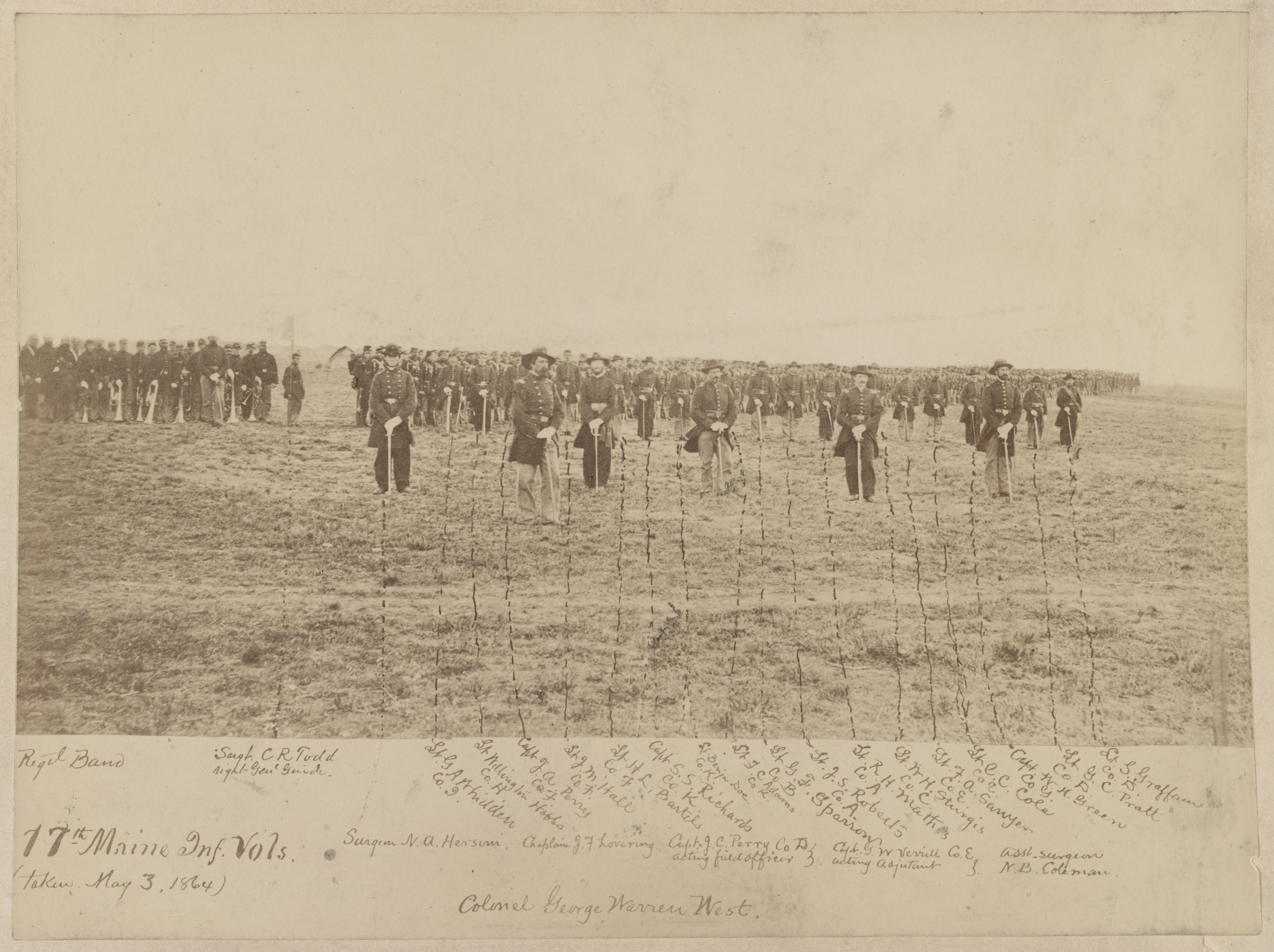 Title: 17th Maine Inf. Vols Abstract: Photograph shows Colonel George Warren West, Sargt. C. R. Todd; Surgeon, N. A. Hersom; Lt. G. A. Whidden; Lt. Wellington Hobbs; Capt. J. A. Perry; Lt. J. M. Hall; Lt. H. L. Bartels; Capt. S. S. Richards; Lt. Benjamin Doe; Lt. F. C. Adams; Lt. G. F. Sparrow; Lt. J. S. Roberts; Lt. R. H. Mathes; Lt. W. H. Sturgis; Lt. F. A. Sawyer; Lt. E. C. Cole; Capt. W. H. Green; Lt. G. C. Pratt; Lt. G. Graffaur; Chaplain J. F. Lovering; Capt. J. C. Perry; Capt. G. W. Verrill; Asst. Surgeon, N. B. Coleman; infantry soldiers, and a regimental band. The photo was taken in Northern Virginia on the day the regiment broke camp to begin its summer campaign. Physical description: 1 photographic print on card mount : albumen. Notes: Title from item.